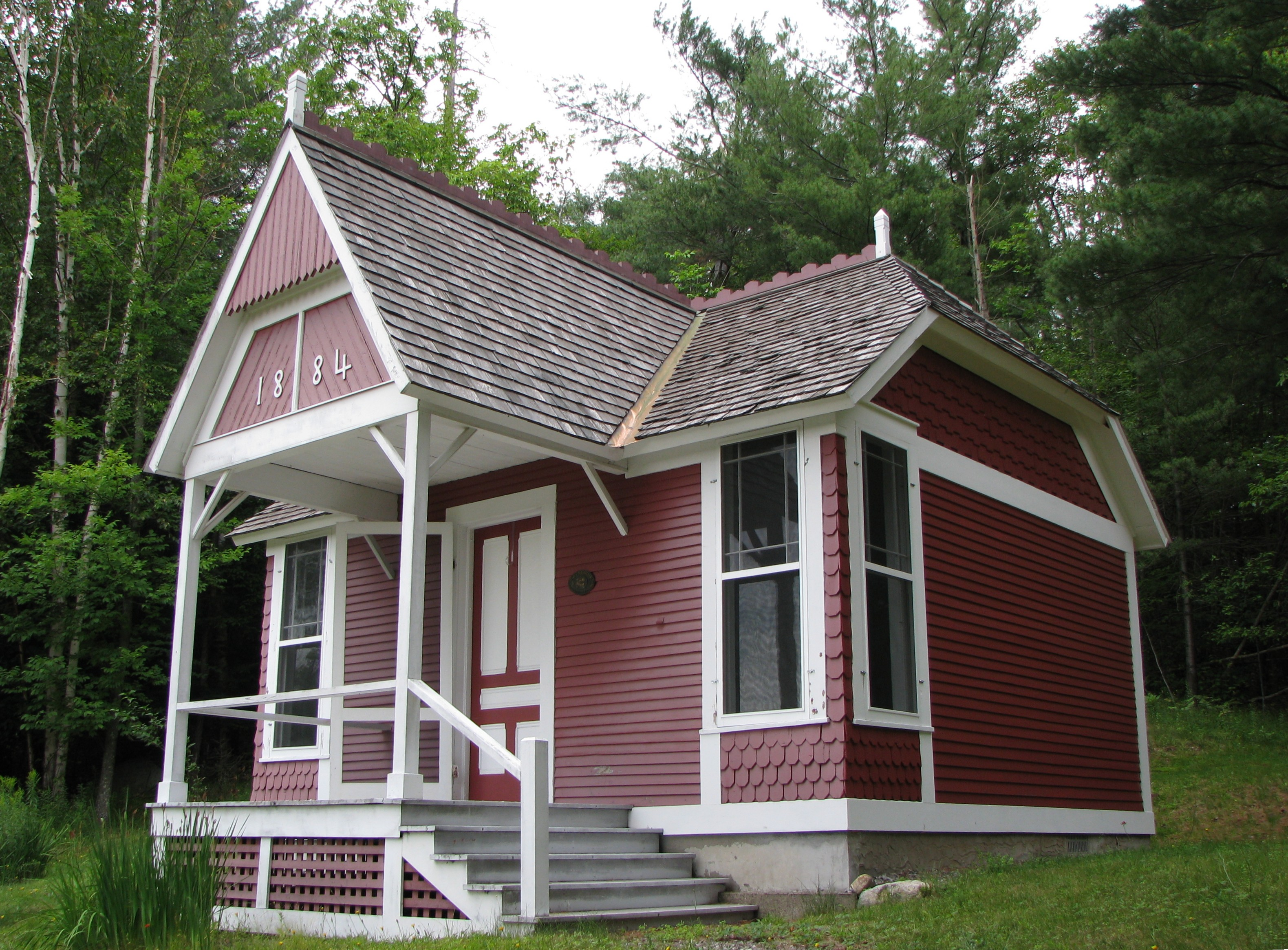 "Little Red" was the first of the Adirondack Cottage Sanitorium buildings, Saranac Lake, NY.